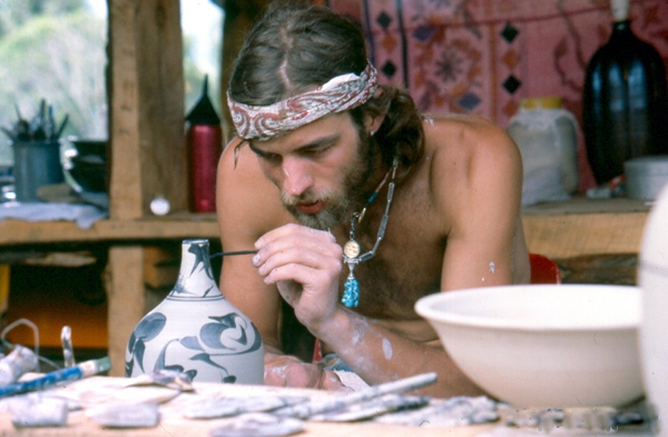 Image (photograph) taken by Official Nambassa Photographer and uploaded by User: Mombas 22:51, 4 May 2007 (UTC) , Nambassa dot com Terms of Use: 1/ All users of this image are required to attribute this work to "Nambassa Trust and Peter Terry" and the url: " " is to accompany all use. 2/ Attribution. You must attribute the work in the manner specified by the author or licensor. 3/ For any reuse or distribution, you must make clear to others the license terms of this work. Statement by Nambassa Trust and Peter Terry